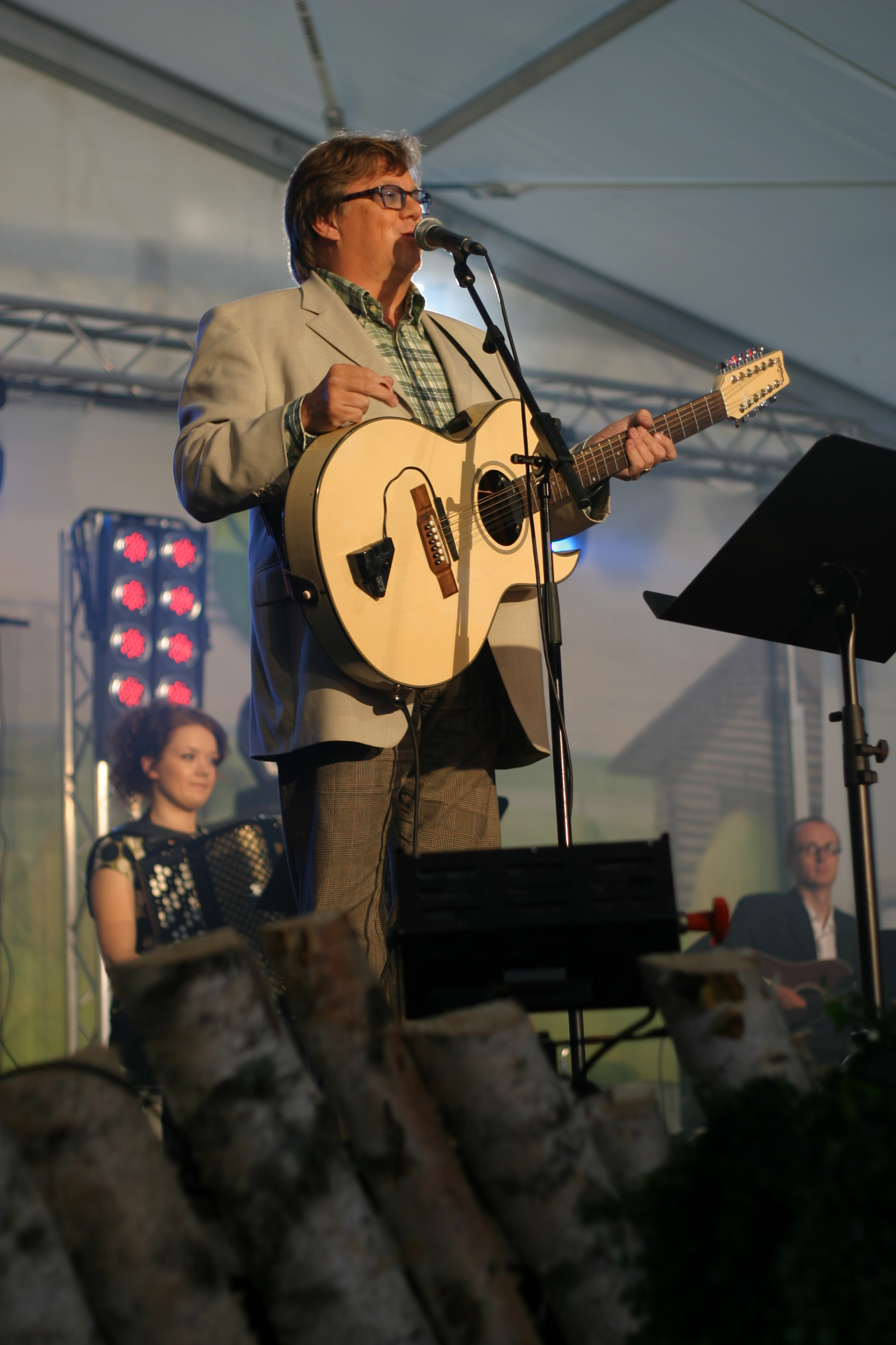 Mikko Alatalo in Vihreät Niityt music festival in the summer 2007.